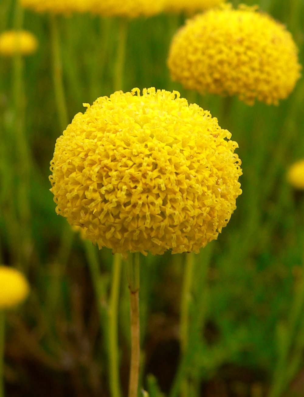 Photo of Santolina virens at the UBC Botanical Garden